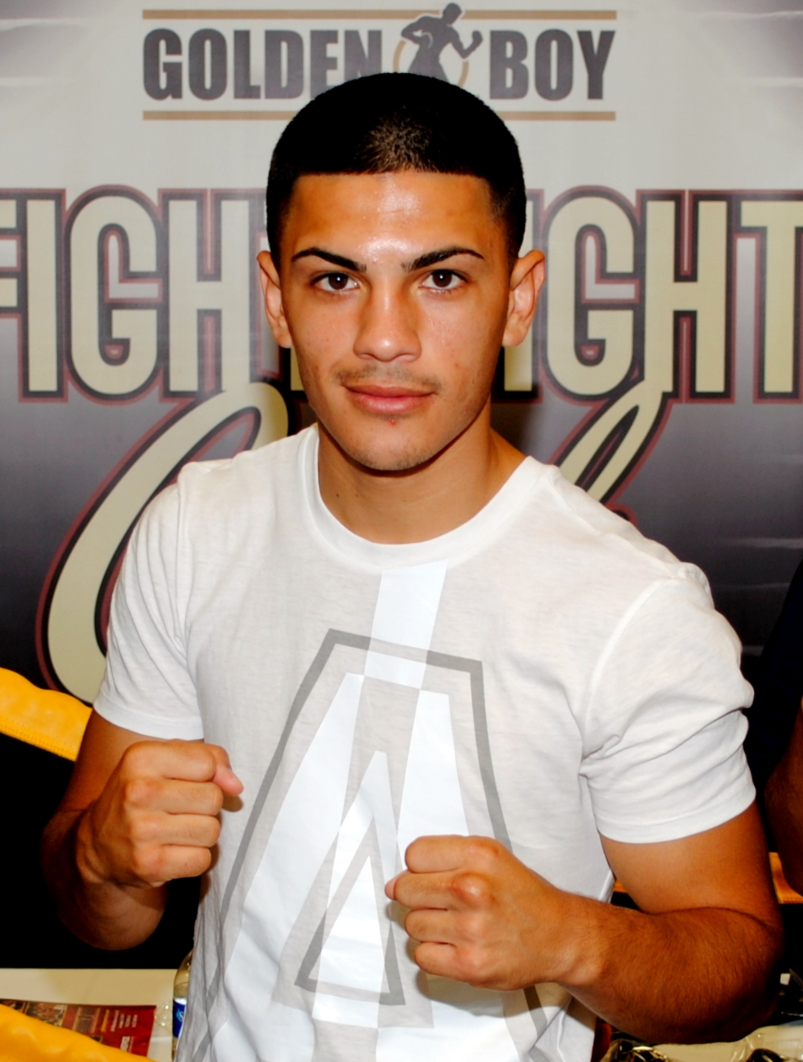 Randy Caballero at the "DeWalt Home Depot Indio" event on June 25, 2011.